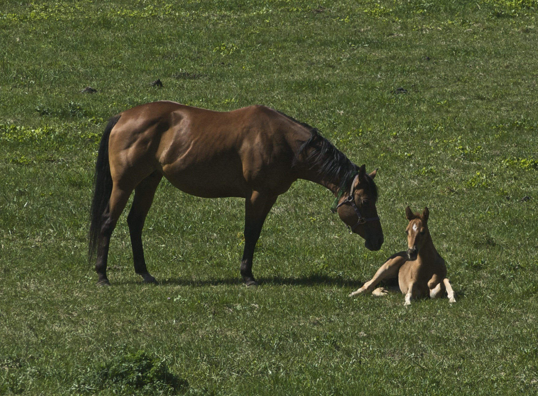 Thoroughbred Mare & Foal